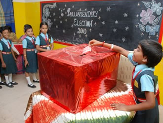 A picture showing a child making her ballot entry on the school parliamentary election.